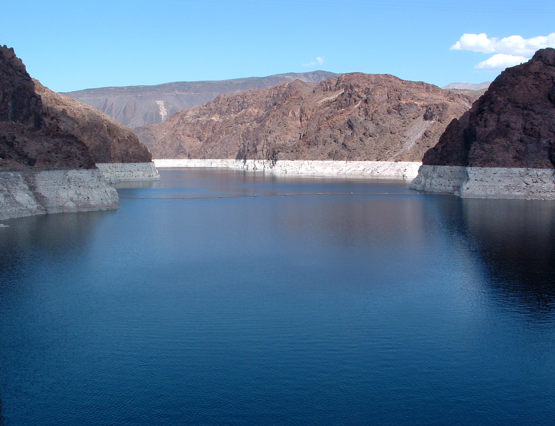 This is a picture of Lake Mead, a lake on the border between Nevada and Arizona, several miles east of Boulder City, Nevada. The lake is formed by Hoover Dam on the Colorado River. It is a view of the lake from the top of Hoover Dam. The picture was taken by me on March 26, 2004. I give permission for the picture to be used with attribution under the GFDL and Creative Commons.